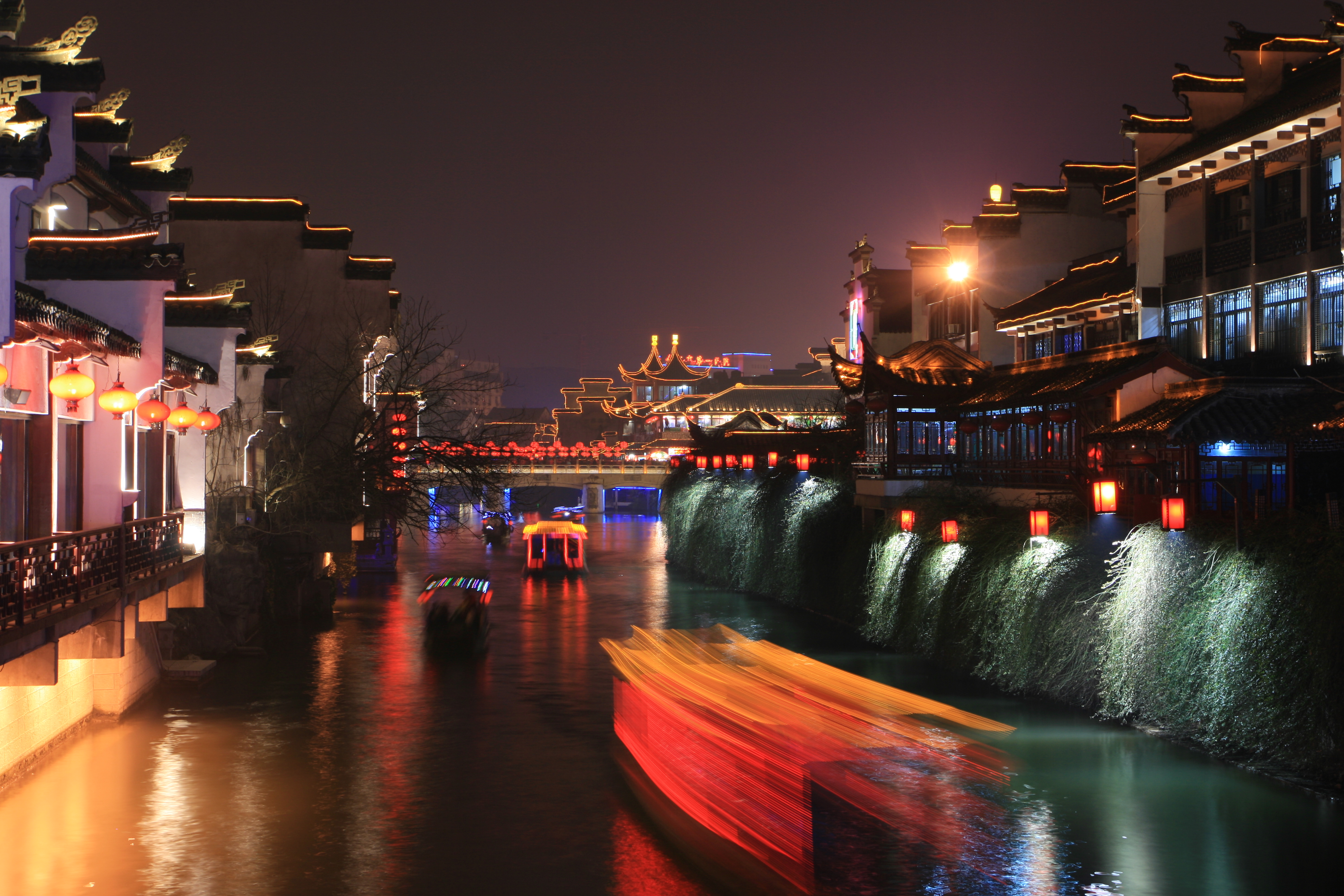 To promote relevant articles. Boatting in the Qinhuai River